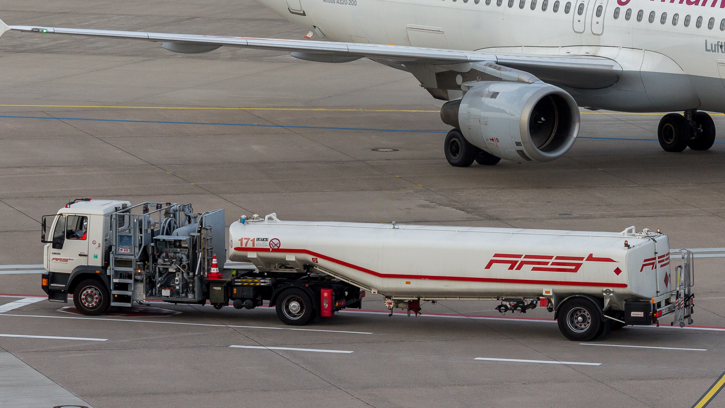 Airport tank truck of Aviation Fuel Services (AFS) on Cologne Bonn Airport